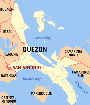 Map of Quezon showing the location of San Antonio